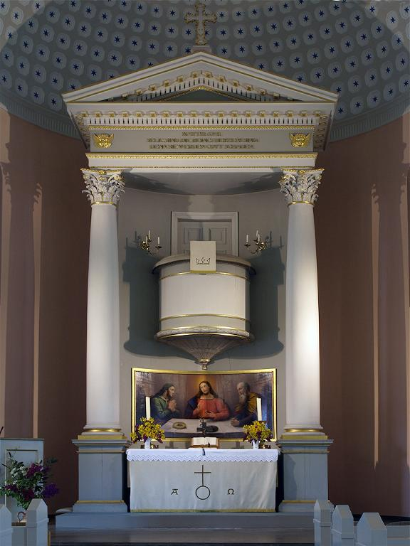 Krempe (Schleswig-Holstein, Germany),Church, Altar with pulpit , photo 2009